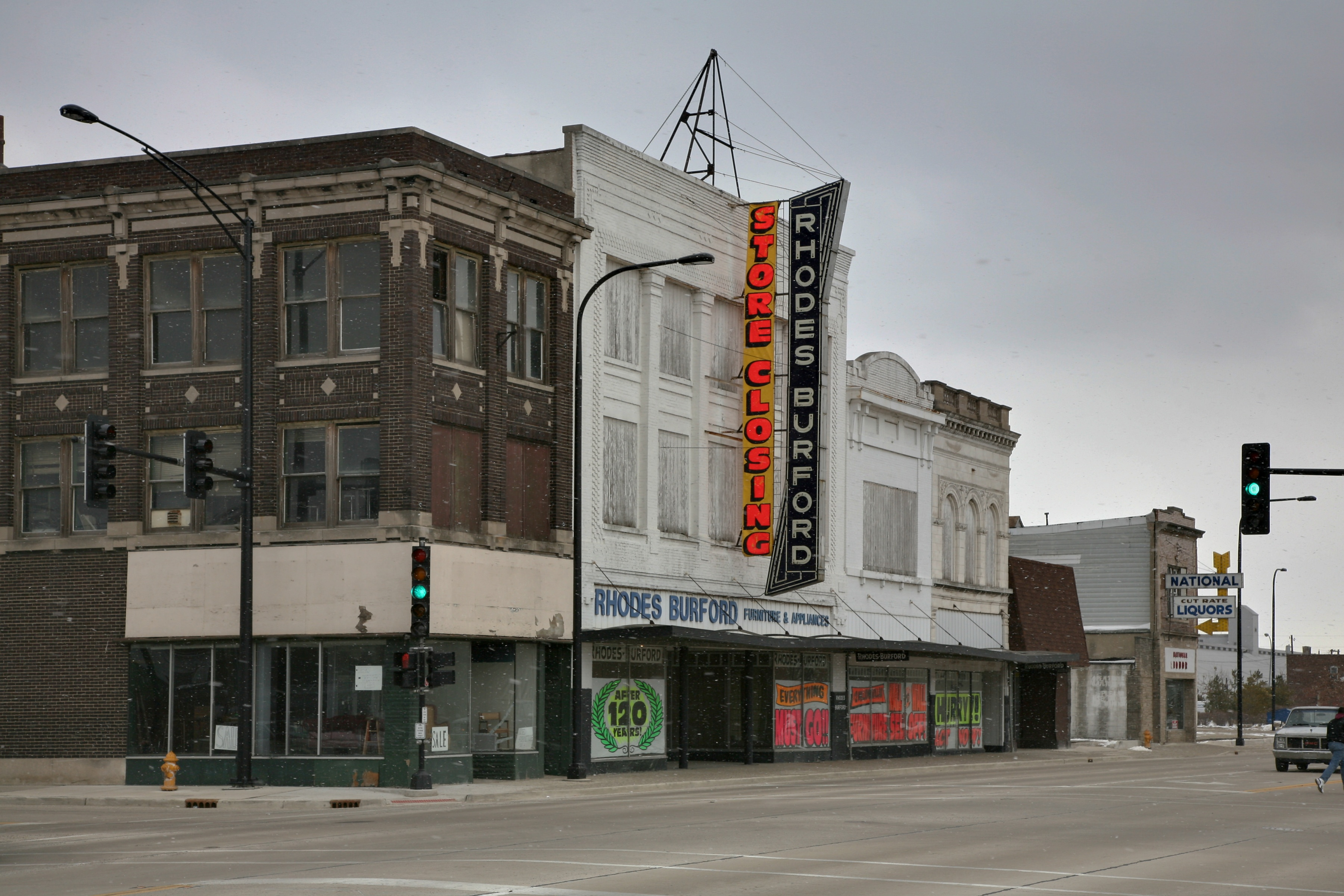 Store closing after 120 years in bussiness, Danville, Illinois, USA